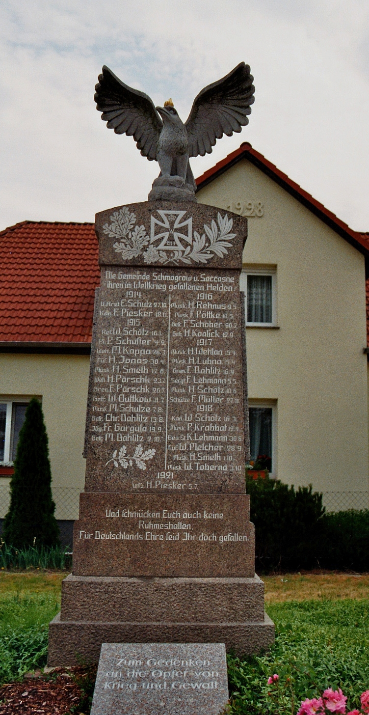 War memorial in Schmogrow, Schmogrow-Fehrow, Landkreis Spree-Neiße, Brandenburg, Germany.